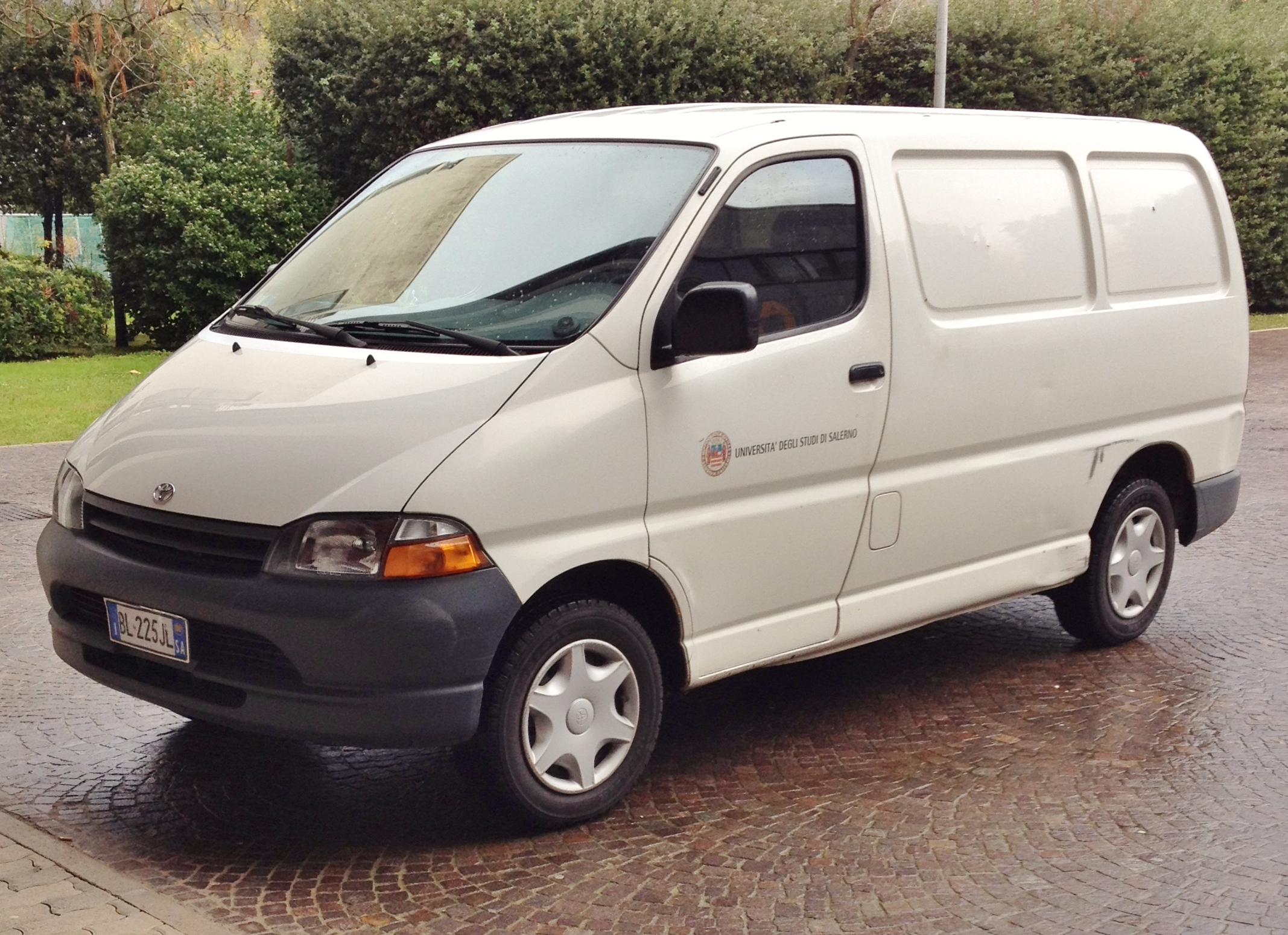 Toyota Hiace XH10 panel van